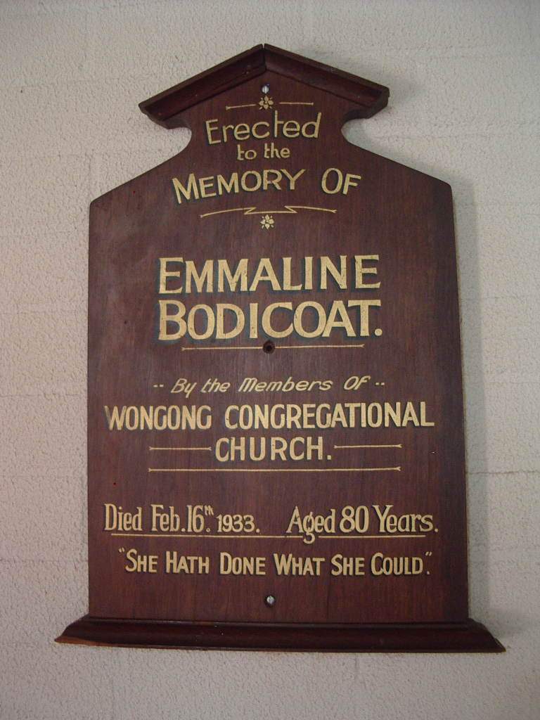 Memorial to Emmaline 'Granny' Bodicoat, originally hung in the Wongong Congregational Mission Hall and donated to History House Museum by her grandson, Jack Kirk, in 1988.